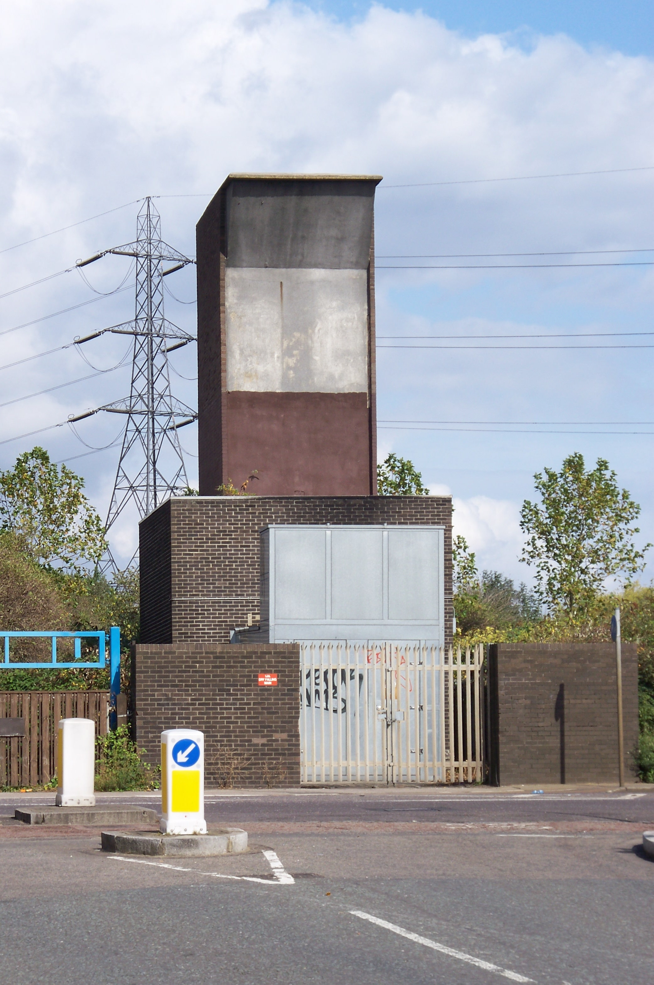 Emergency Victoria Line access shaft, London